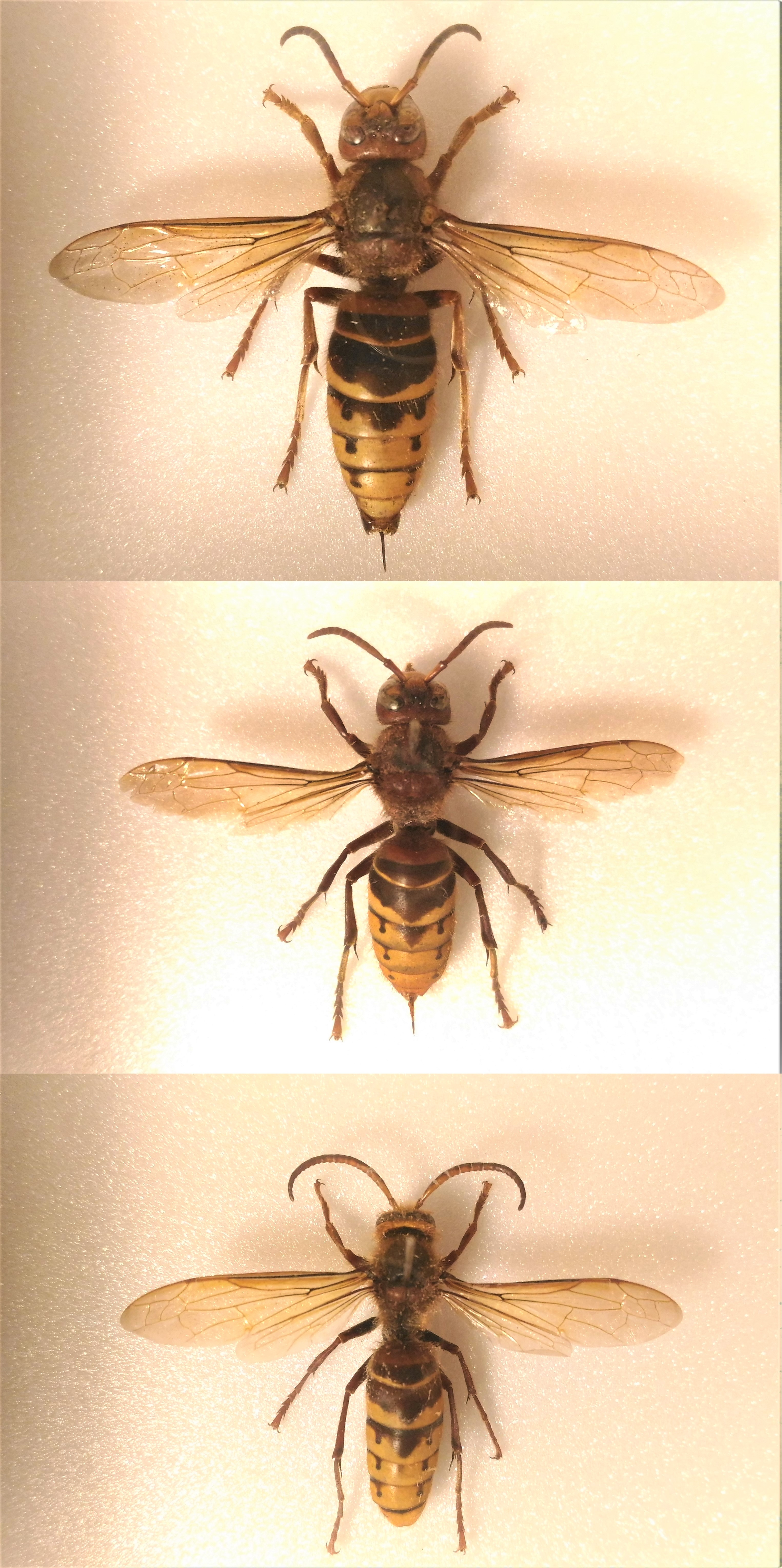 Taxonomy of three Vespa Crabro Germana exemplars: queen (top), female (center) and male (bottom). Private collection, F. Turetta.